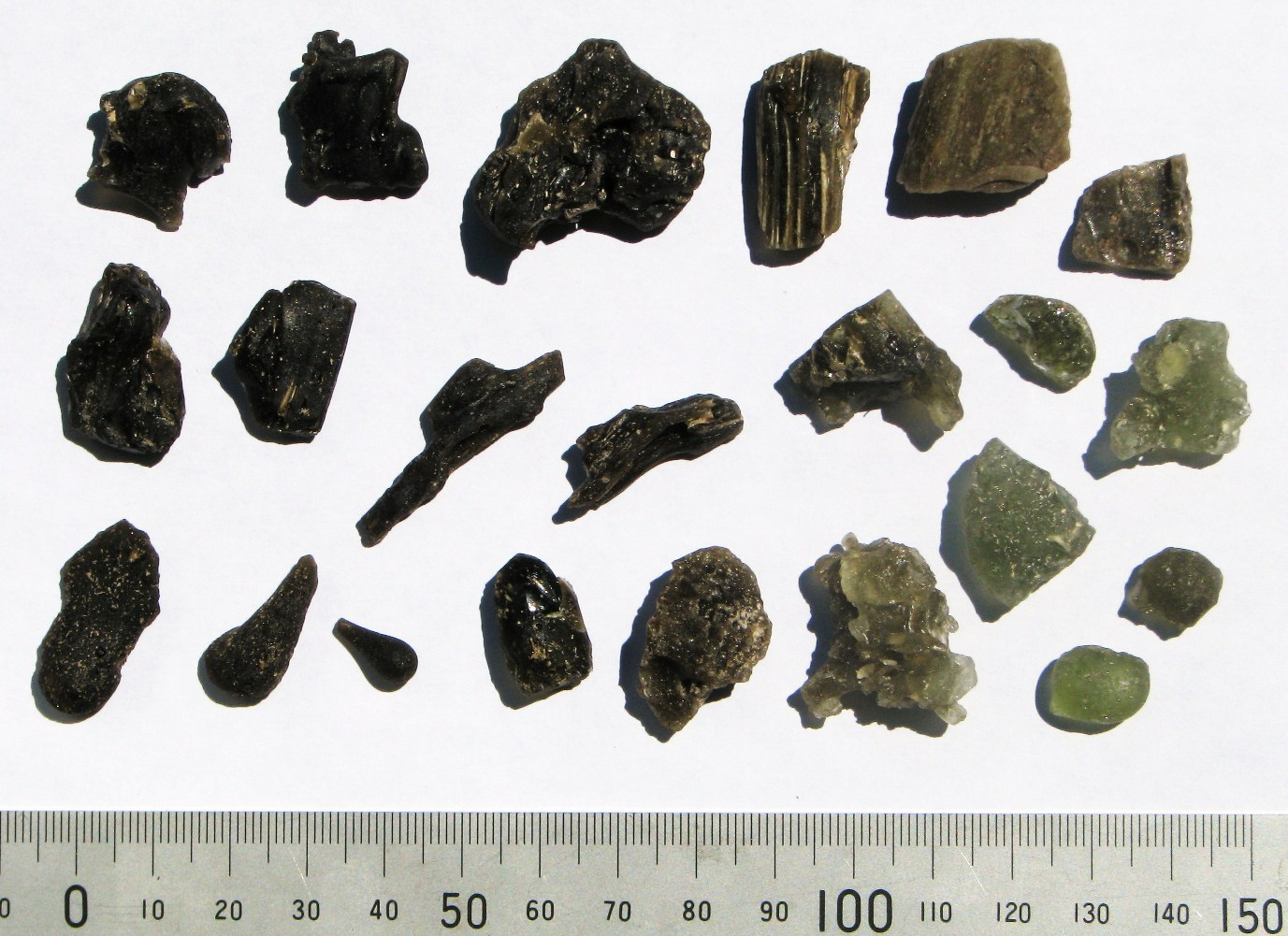 Darwin glass, western Tasmania